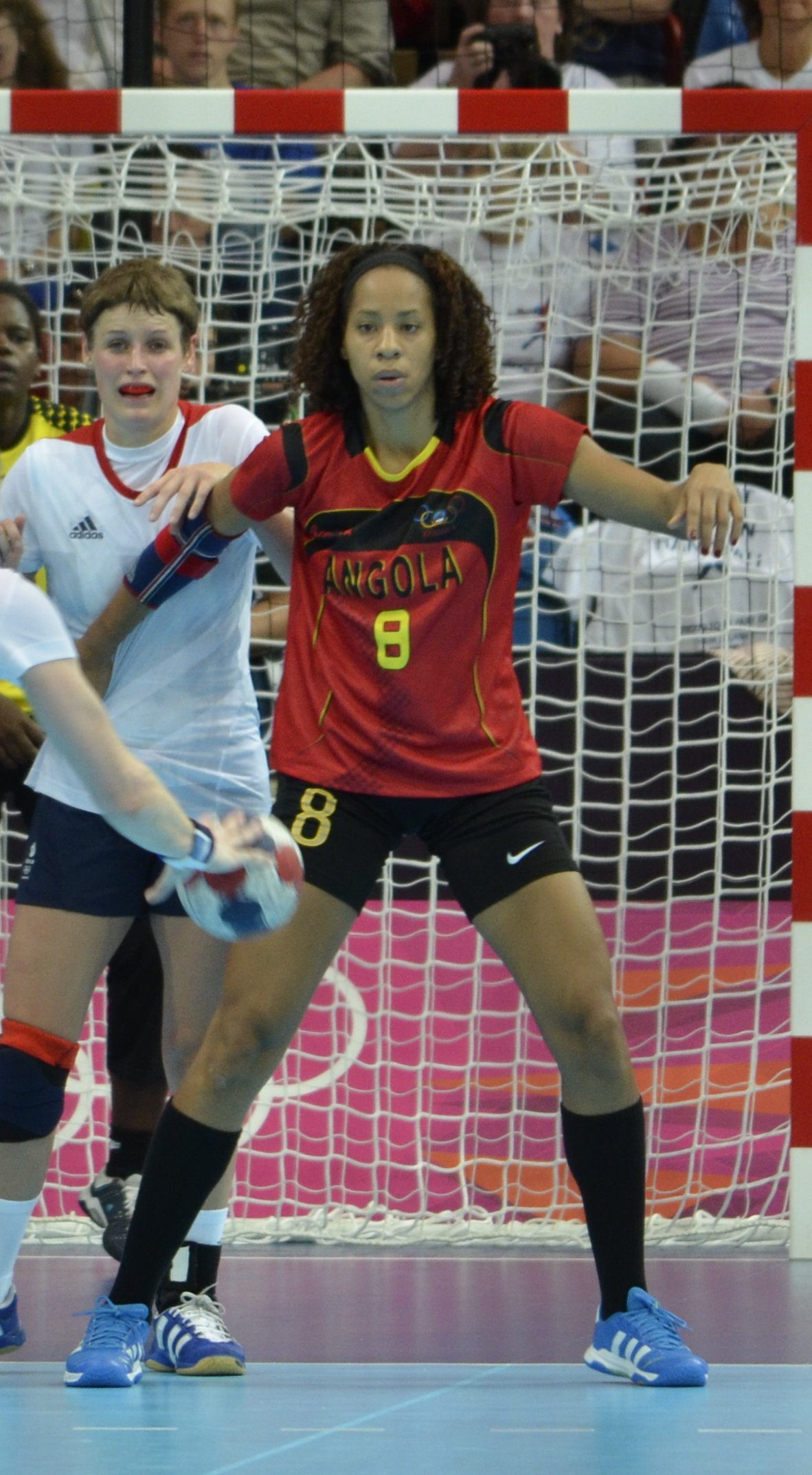 Nair Almeida from Angola team at the 2012 Summer Olympics women handball tournament